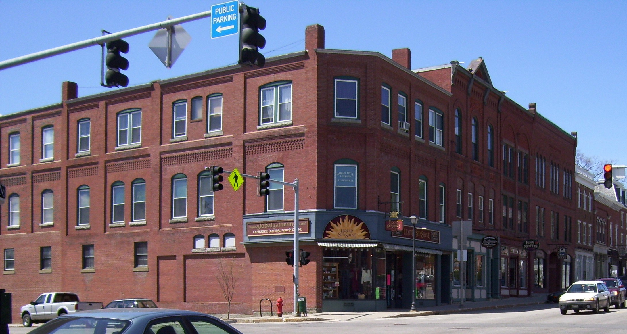 A building at the intersection of Main and Broadway in Farmington, Maine.